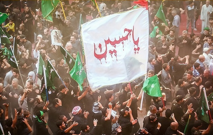 Ashura Mourning in Karabala, Iraq